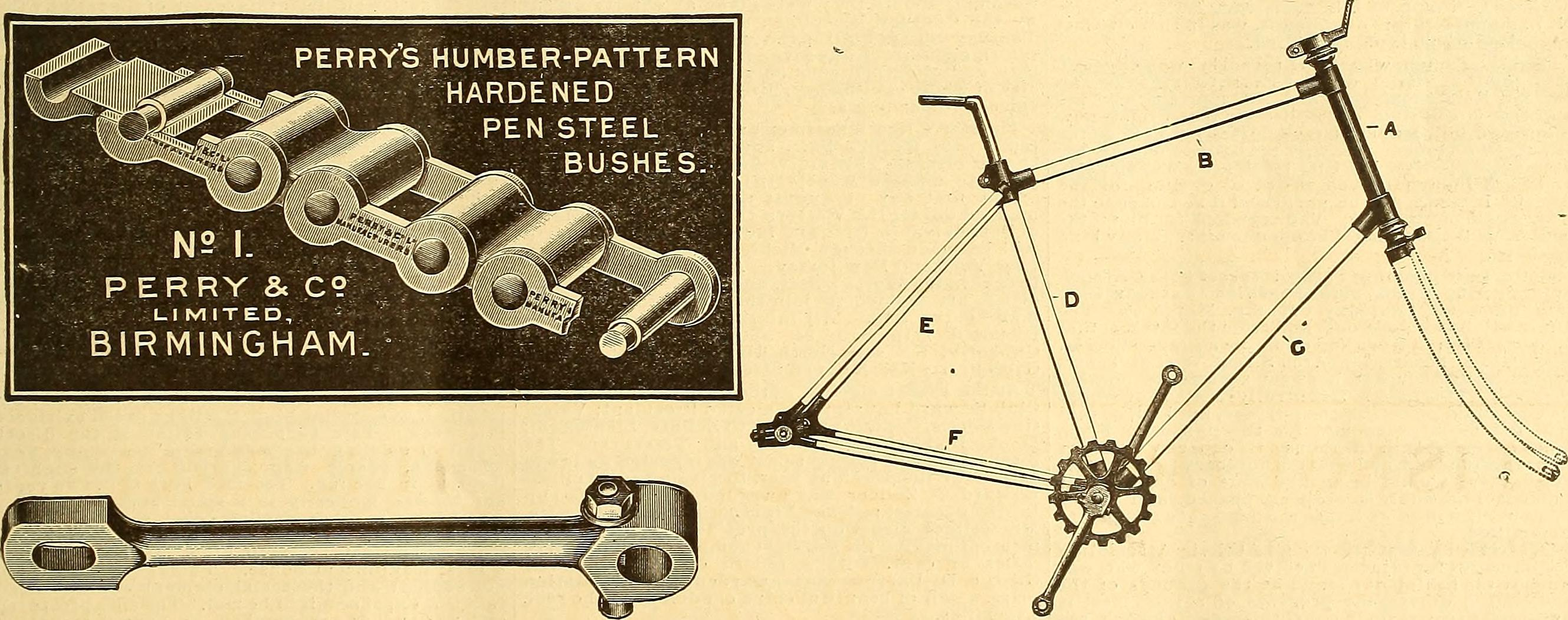 Humber frameImage from page 46 of "The Wheel and cycling trade review" (1888)